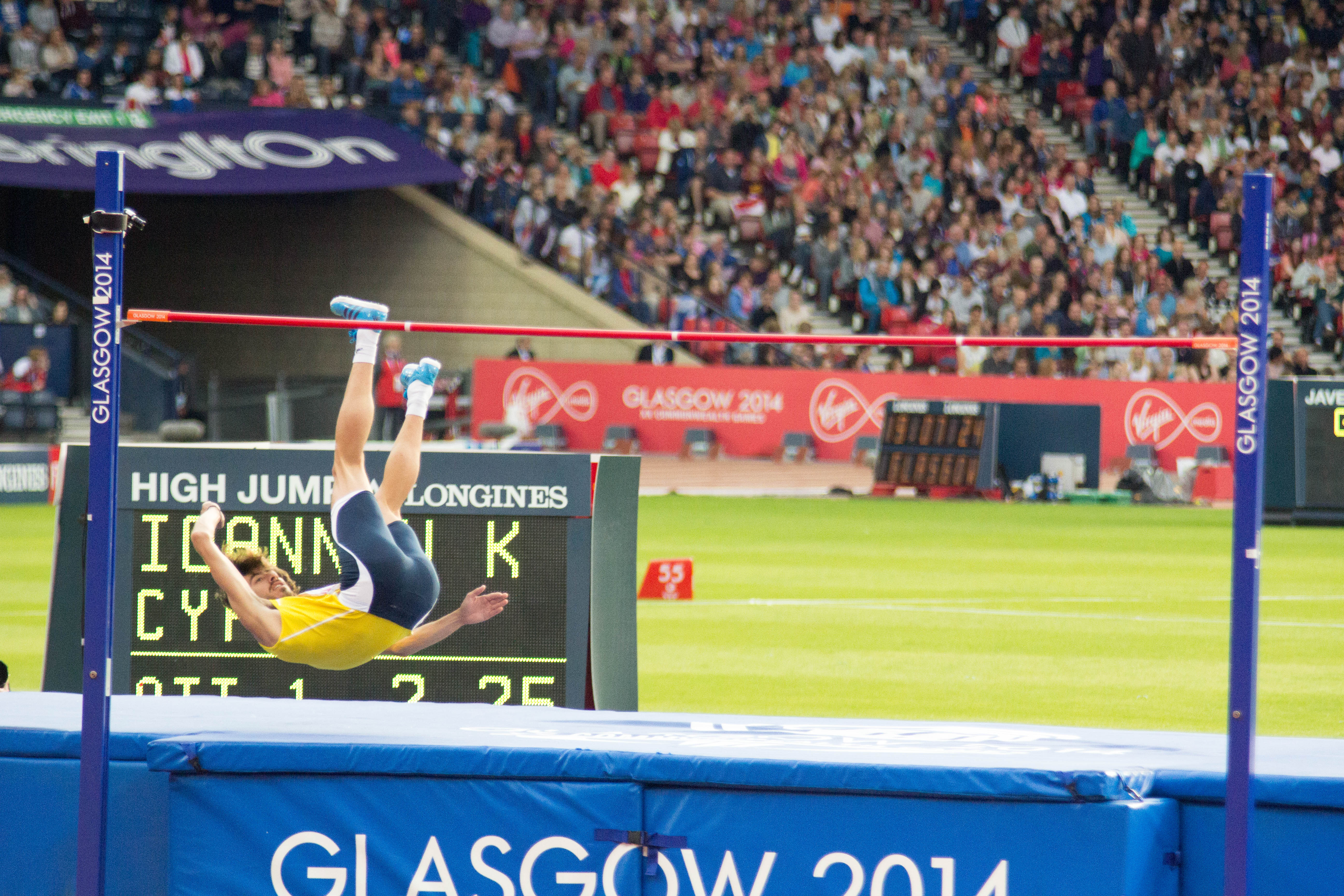 Commonwealth Games 2014 - Athletics Day 4 2014 Commonwealth Games Day 4: Athletics